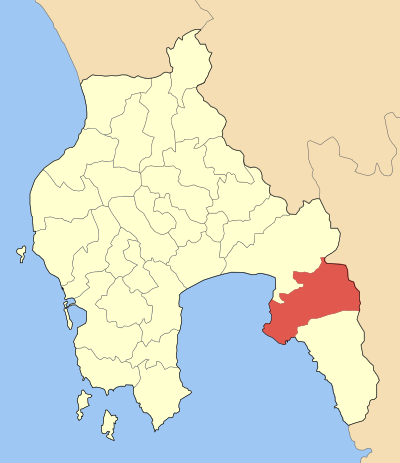 Locator map of Avias municipality (Δήμος Αβίας) at Messinia perfecture, Greece.